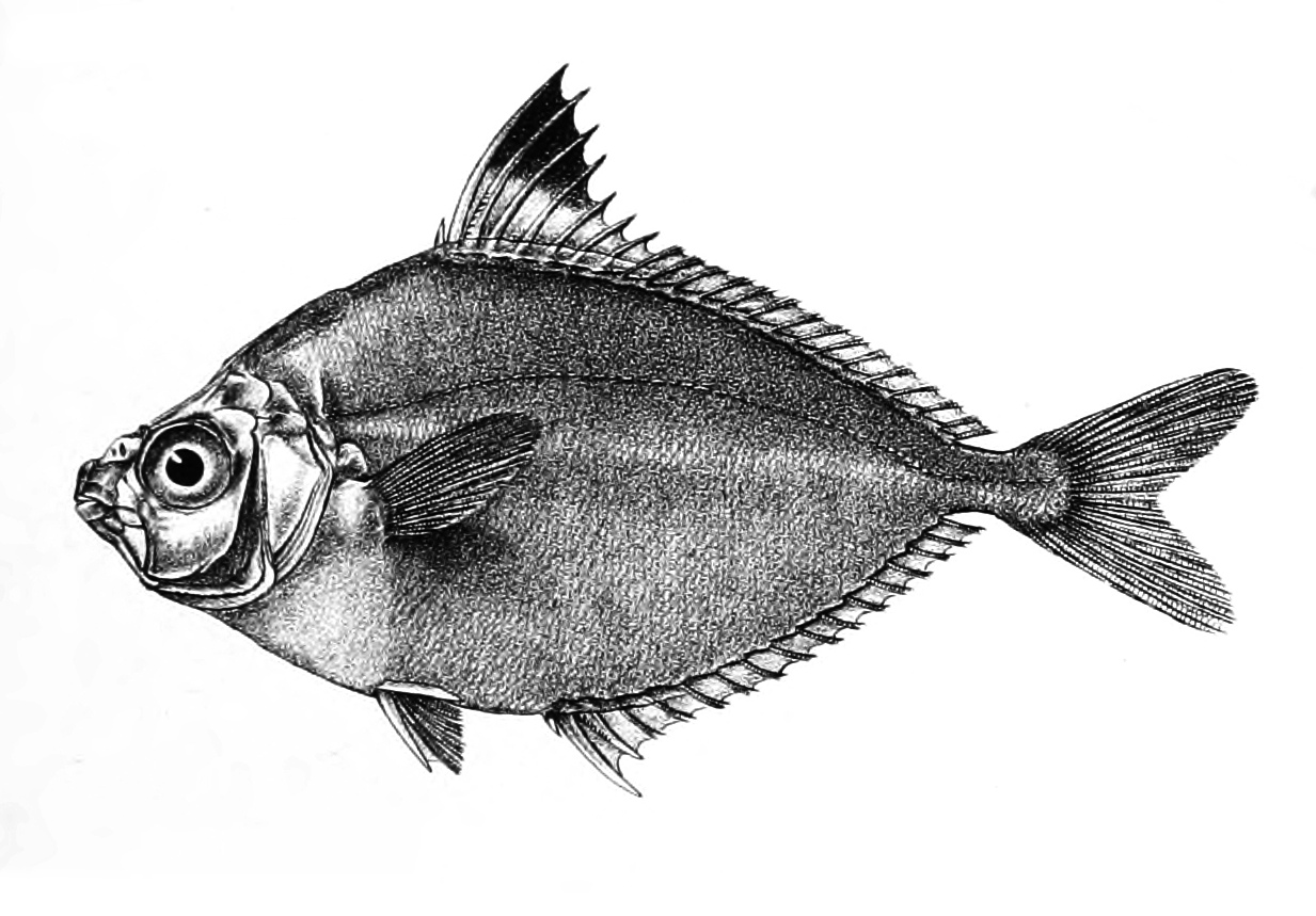 The species names / identity need verification. The original plates showed the fishes facing right and have been flipped here. Equus daura